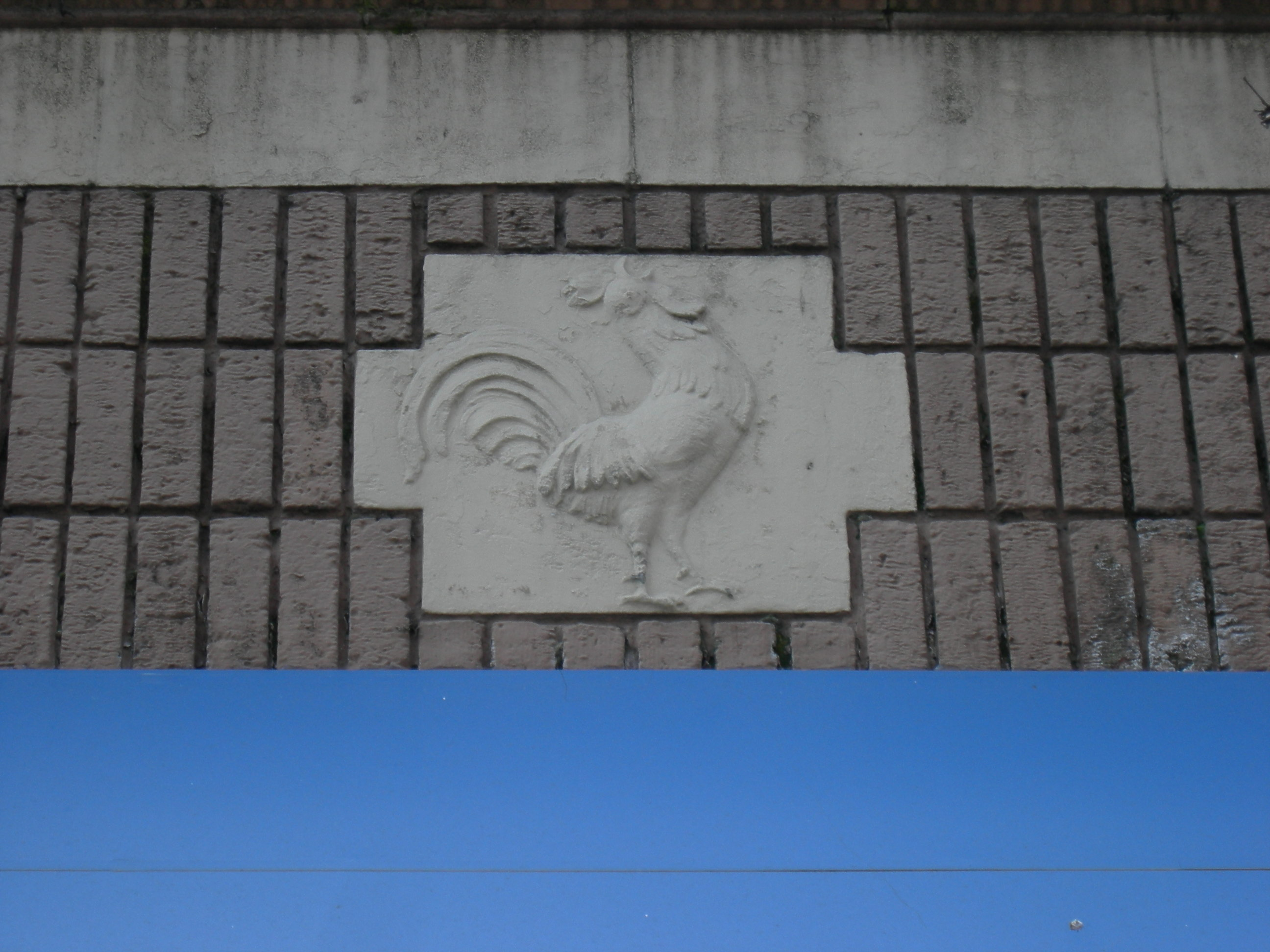 Detail of the Pathé Building, 2025 3rd Ave, Seattle, Washington, roughly on the border between Downtown and Belltown, is the most prominent remnant of Seattle's first (1920s) "film row". Originally the Pathé Film Exchange, it now houses a print shop. The rooster was (and is) the symbol of the Pathé film company. By the 1930s, Seattle's "film row" had moved a few blocks northwest to 2nd Avenue in Belltown; film exchange centers gradually became obsolete in the second half of the 20th century. For more about this building, see Summary for 2025 3rd AVE / Parcel ID 1977201105, Seattle Department of Neighborhoods.